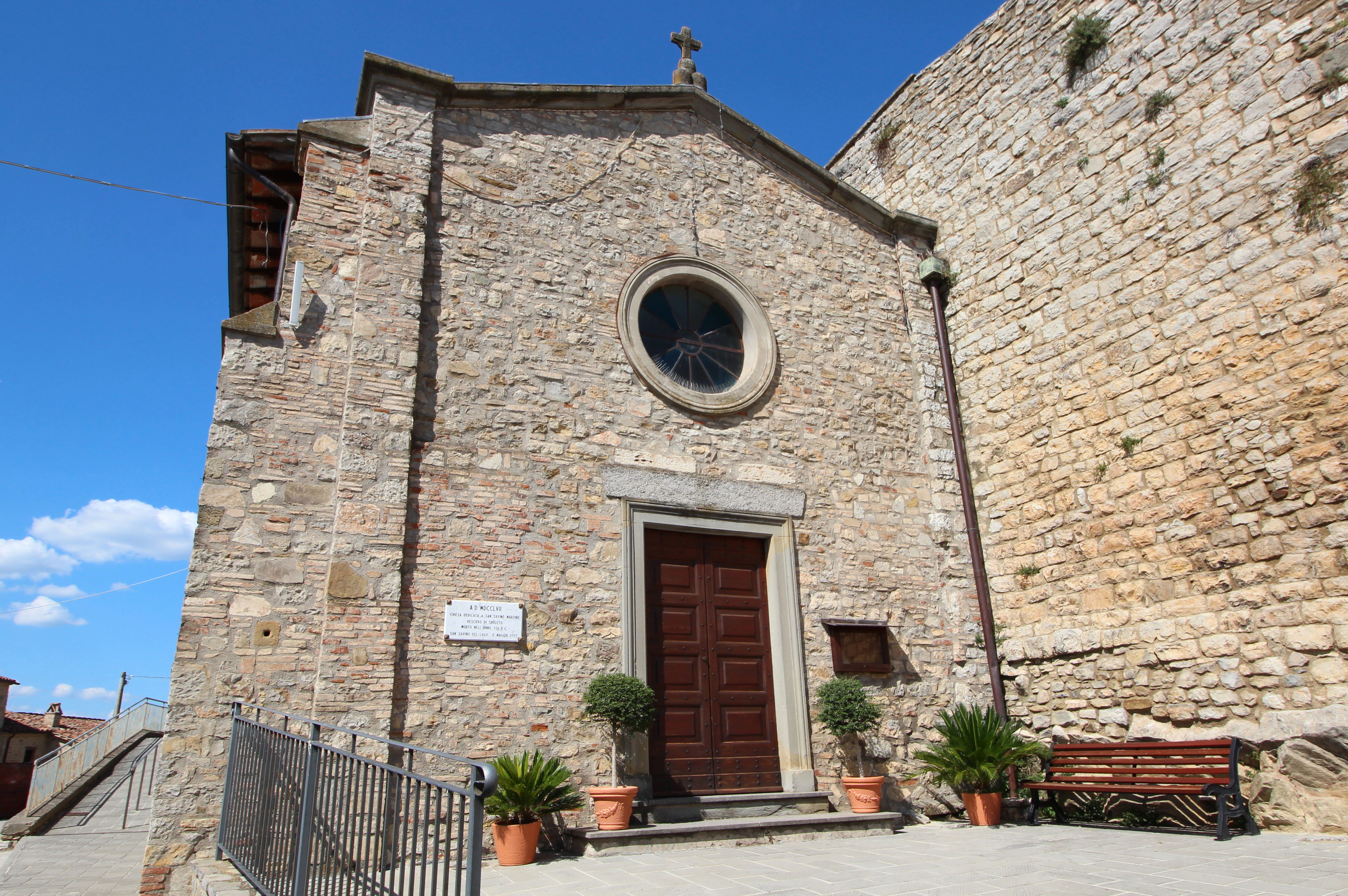 Church San Savino, San Savino, hamlet of Magione, Umbria, Italy